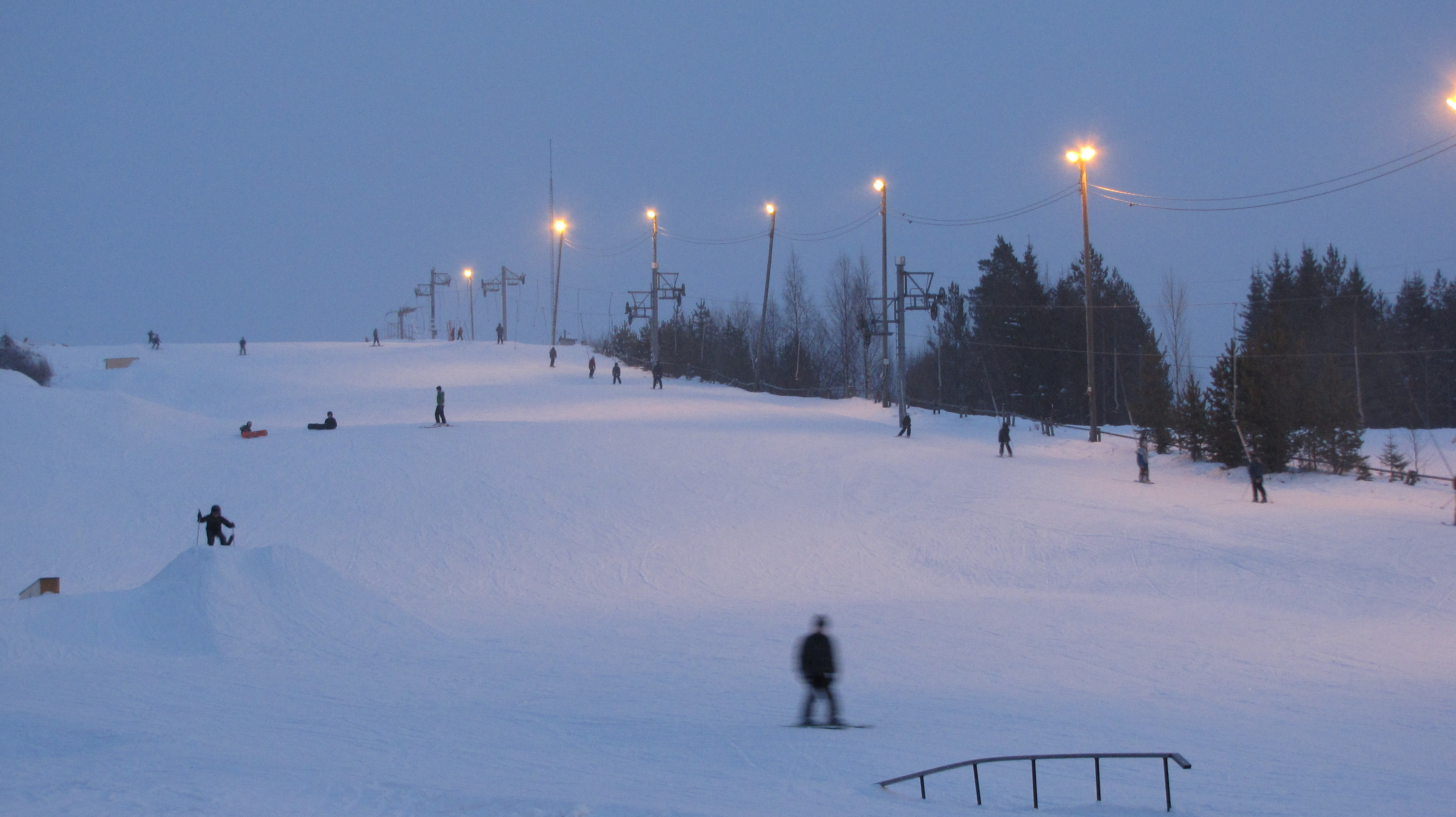 Kiuaskallio ski resort in Jalasjärvi, Finland.